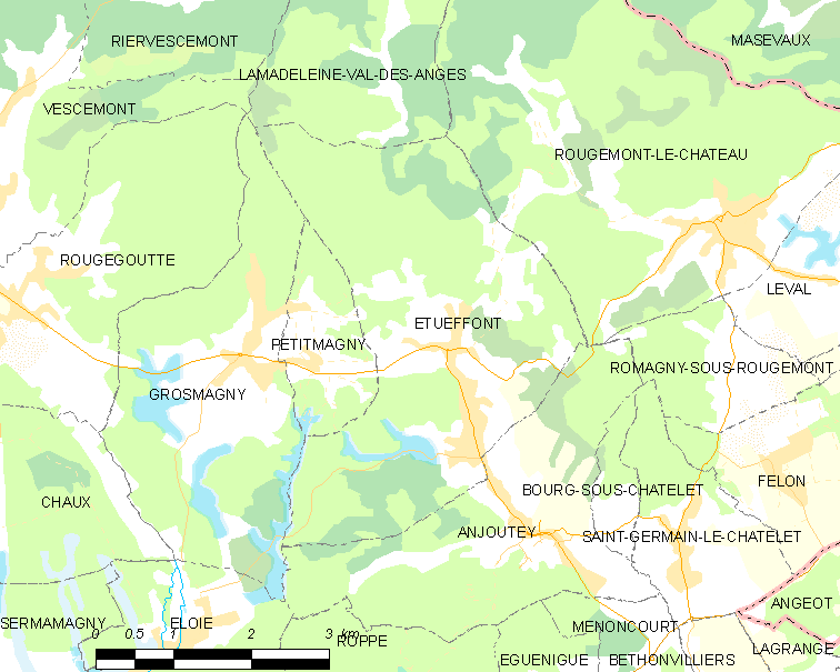 Map of French municipality Étueffont